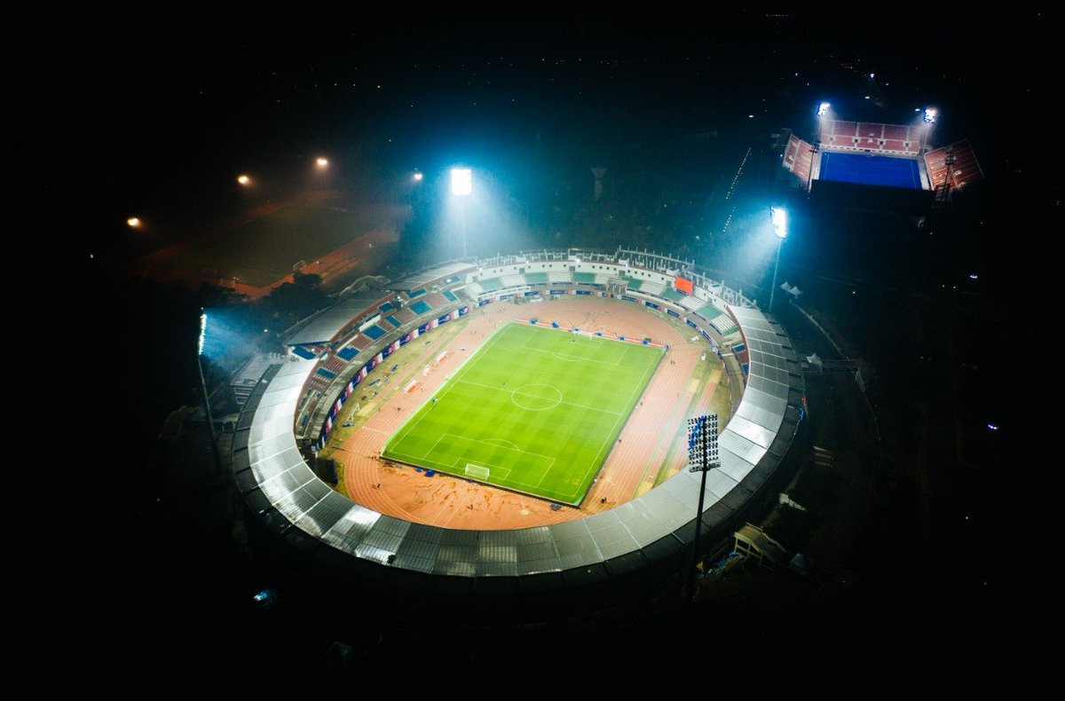 Tweet Text: The iconic #KalingaStadium is all decked up again for a memorable match as our own team @OdishaFC plays its first home game against @JamshedpurFC at the international class football pitch prepared in a record time. Welcome football fans to cheer our home team & enjoy the marvel